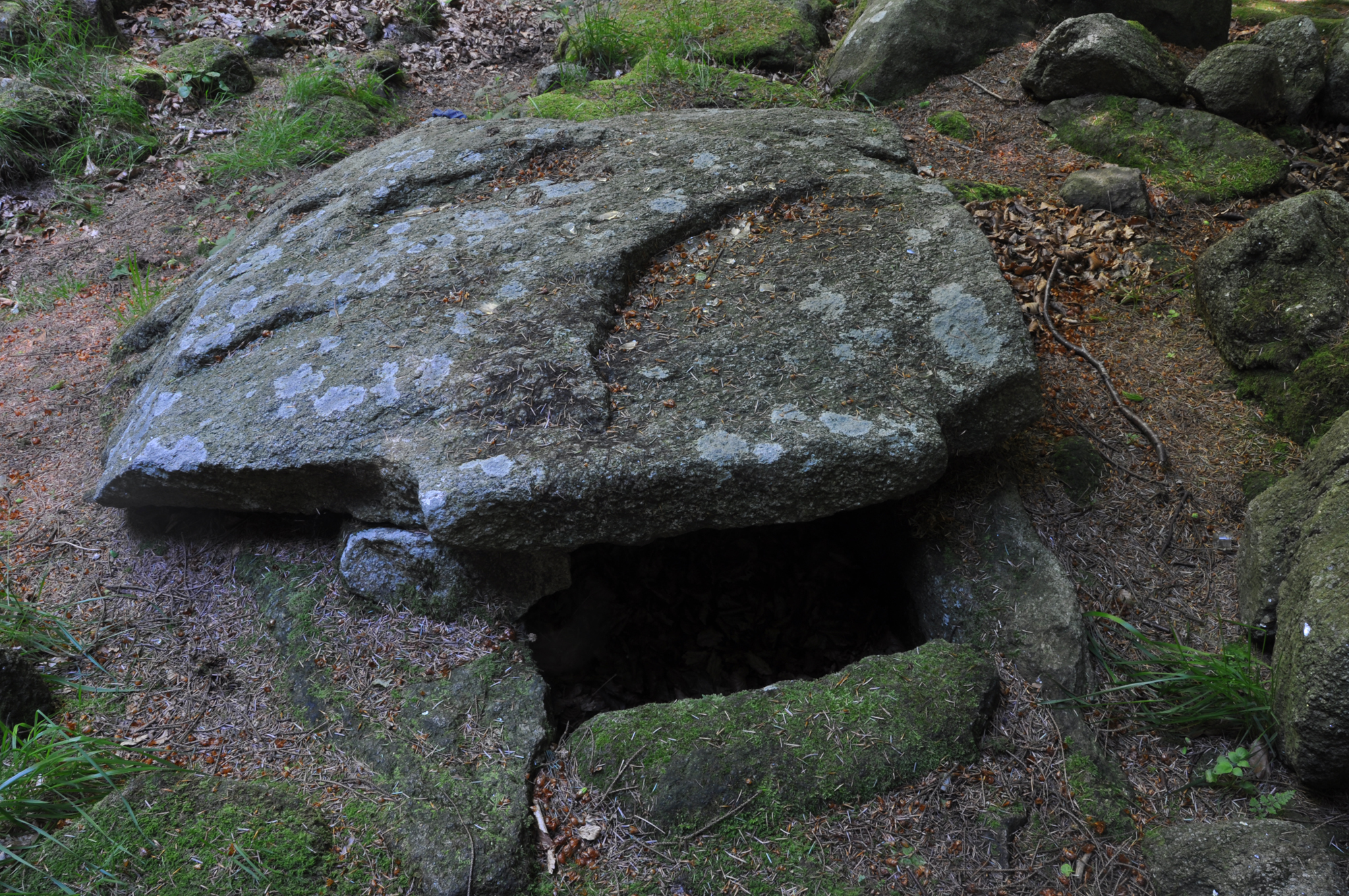 Photograph of the megalithic wedge tomb at Kilmashogue, County Dublin, Ireland